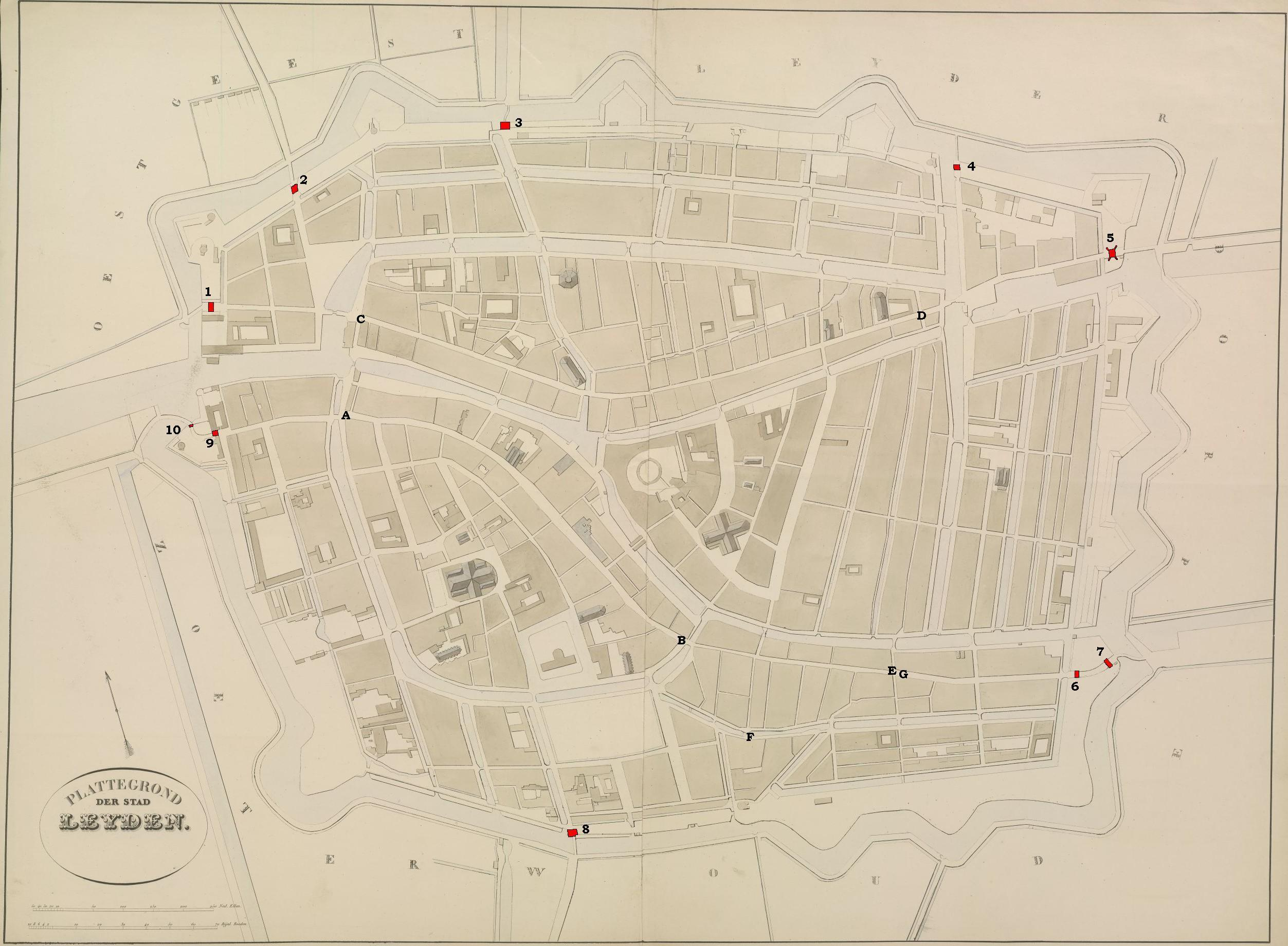 Map of the city of Leiden indicating the 10 city gates still extant in 1860 (numbered) and those alreday demolished by thta time (A-G).